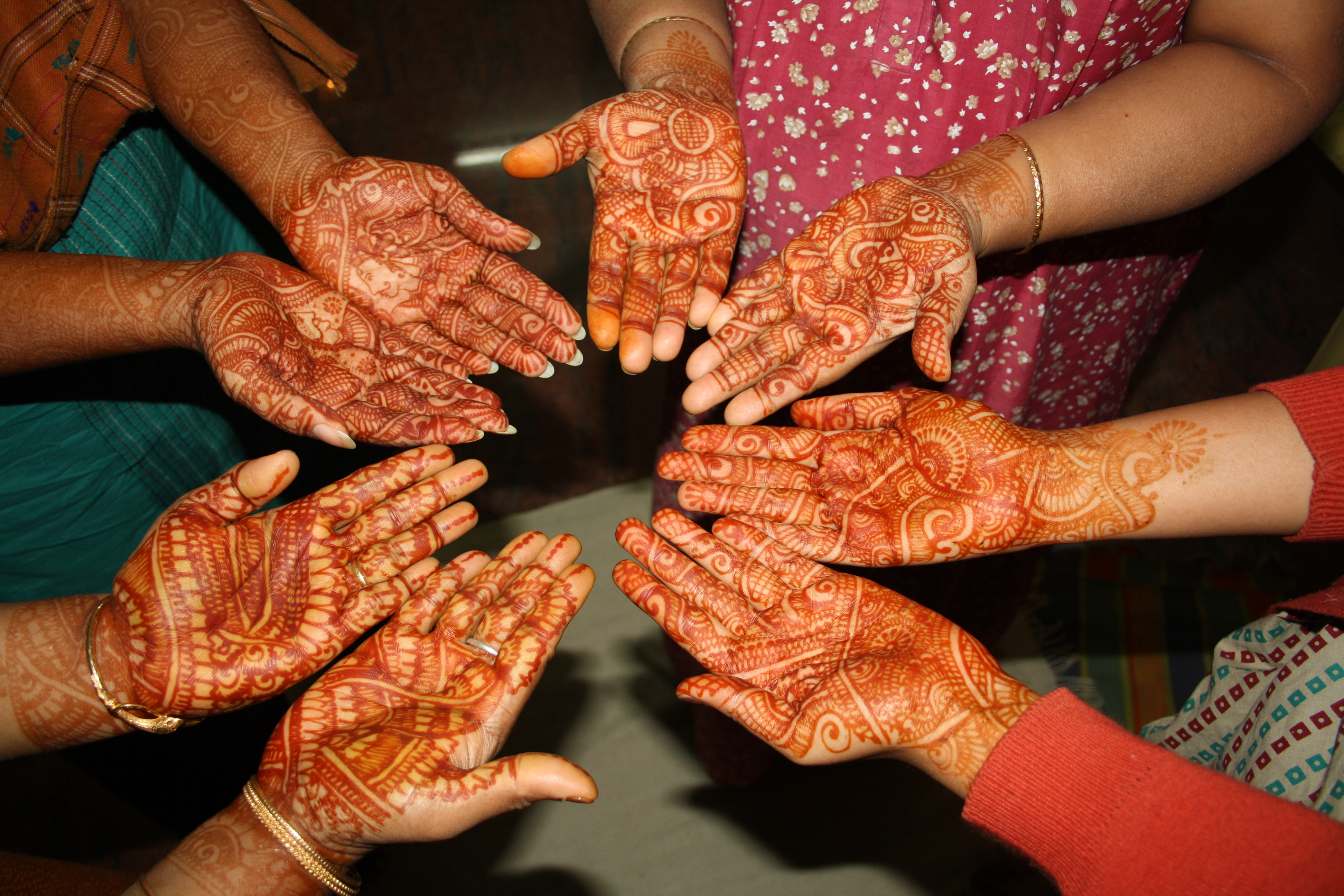 Mehendi on hands